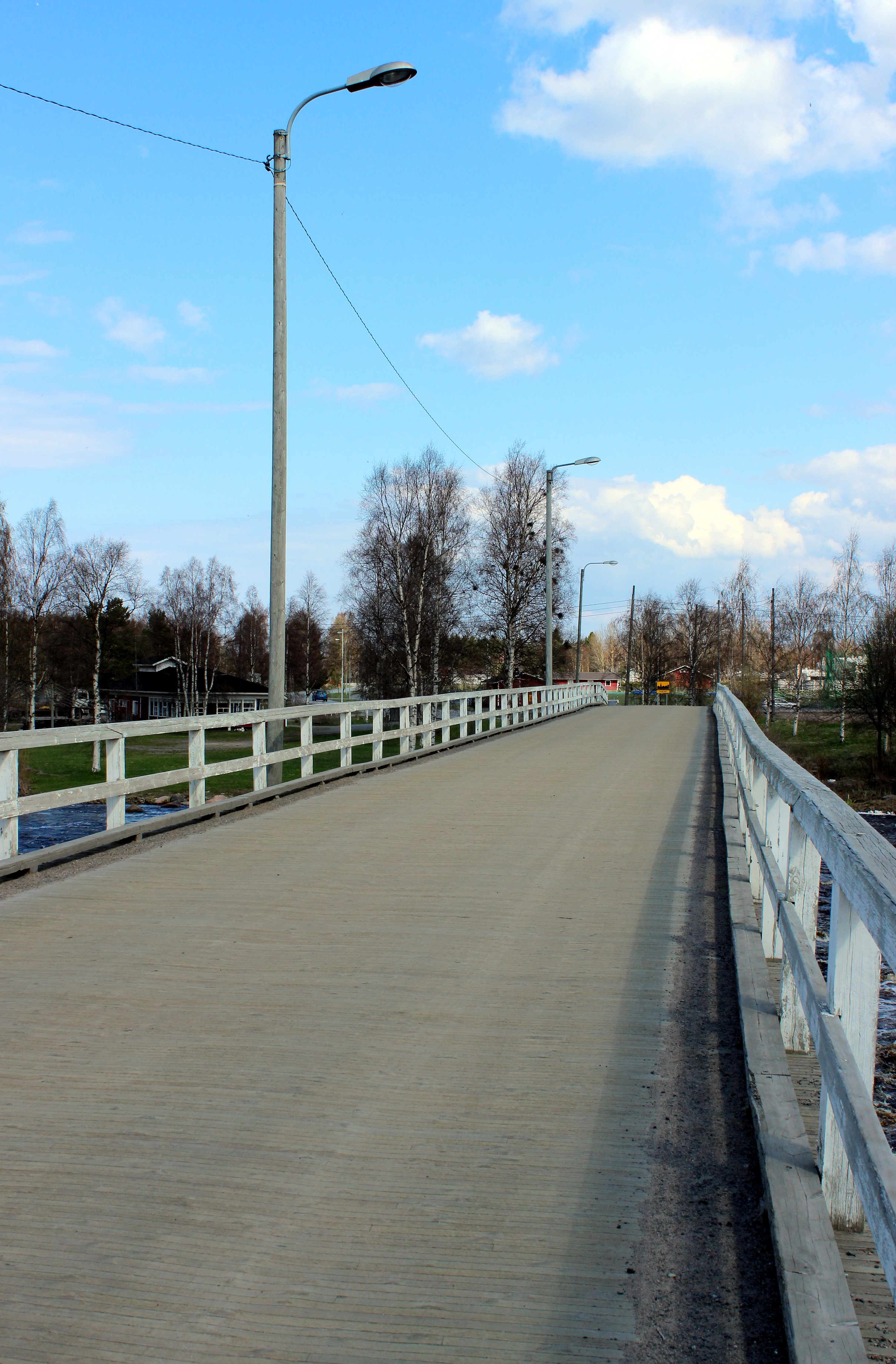 Etelänkylän isosilta bridge over the Pyhäjoki river in the municipality of Pyhäjoki in Finland.